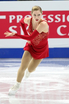 Canadian figure skater Alaine Chartrand at the 2015 Four Continents Figure Skating Championships.